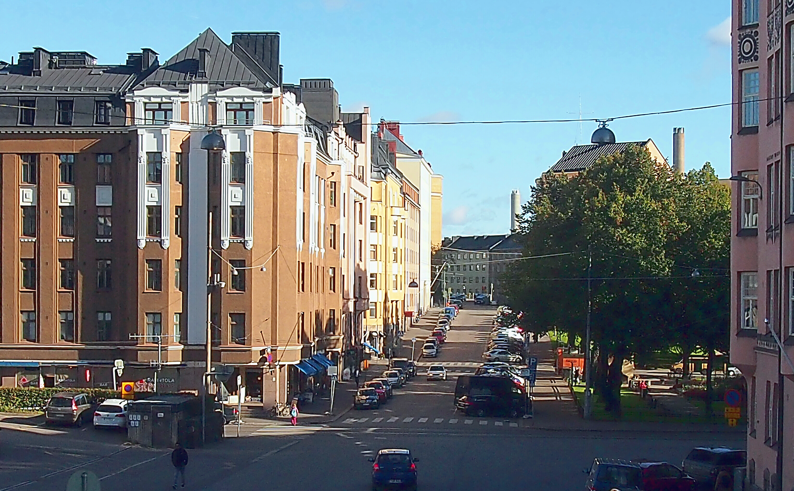 The street Agricolankatu, Helsinki, Finland